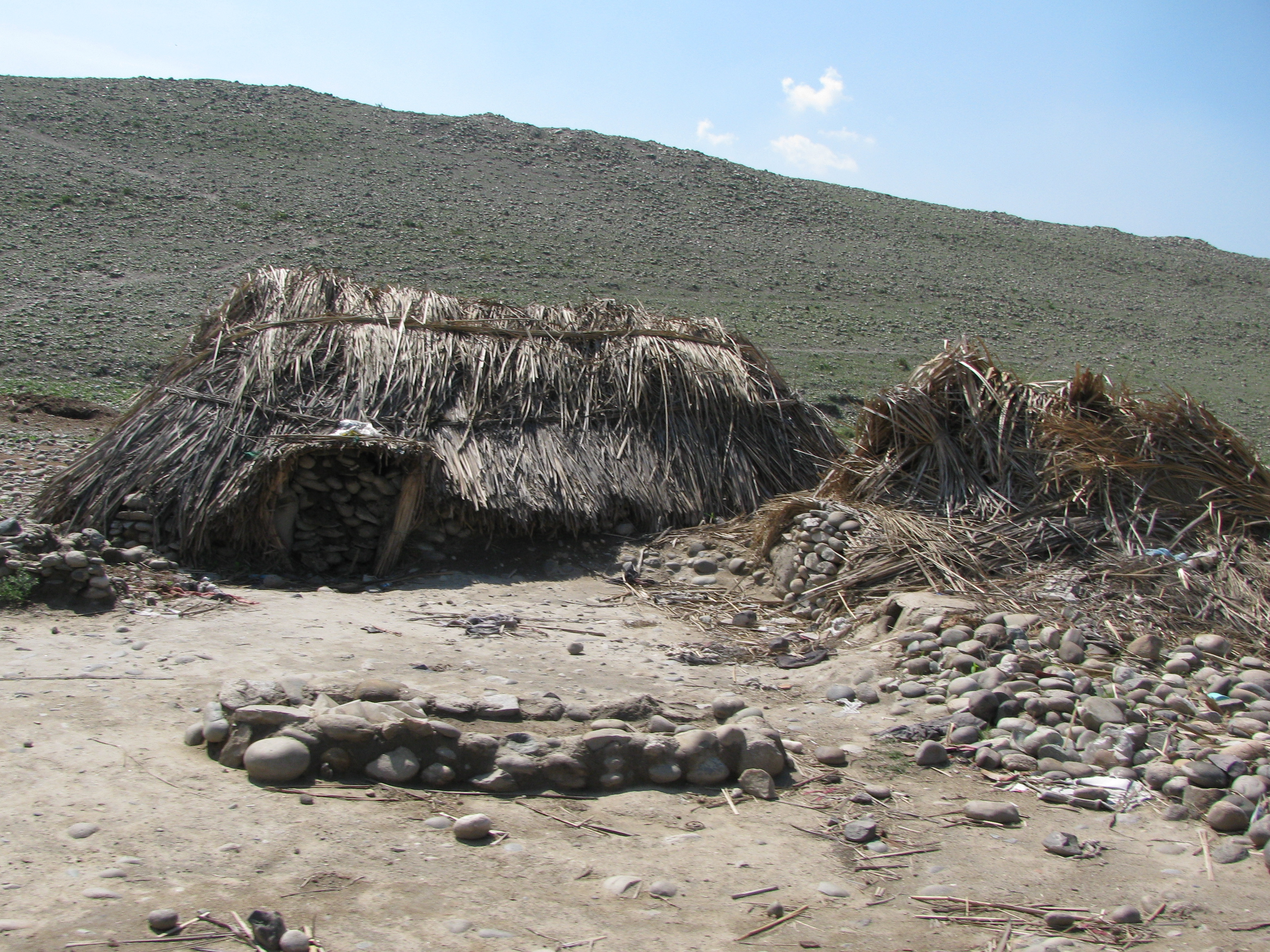 Unoccupied buildings which part of the year house members of the Kuchi tribe. From wikipedia... "According to the UN High Commission on Refugees, before the 30 years of war, Kuchis owned 30 per cent of the country's goats and sheep and most of the camels for years. They traded things such as dairy products, tea, sugar and wool with the sedentary people for food staples such as wheat and vegetables.[6] They formed the spine of the Afghan economy and their trading caravans bridged South Asia and the Middle East.[6]"